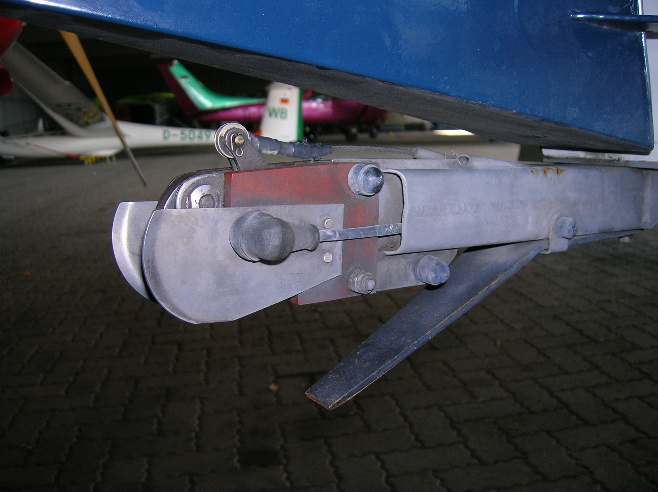 Tail section of a Robin DR400, with coupling used for aerotowing.